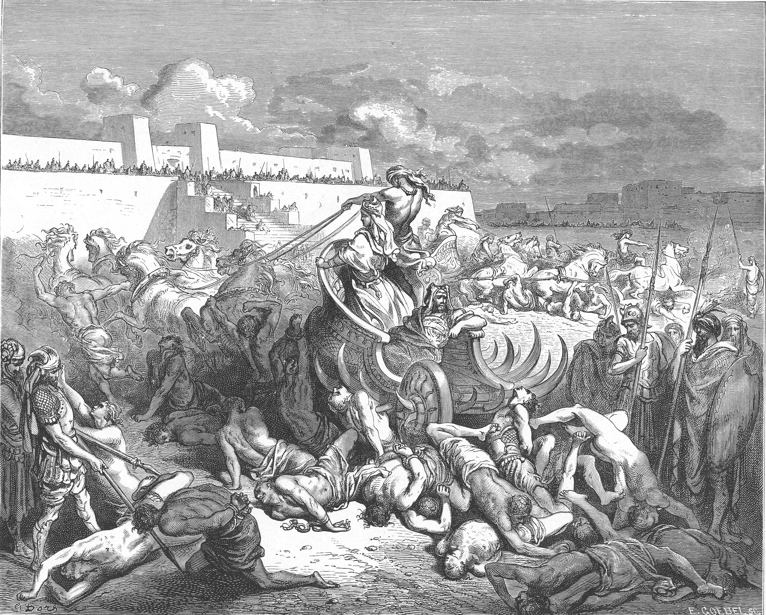 David Attacks the Ammonites (2Sam. 12:26-31)